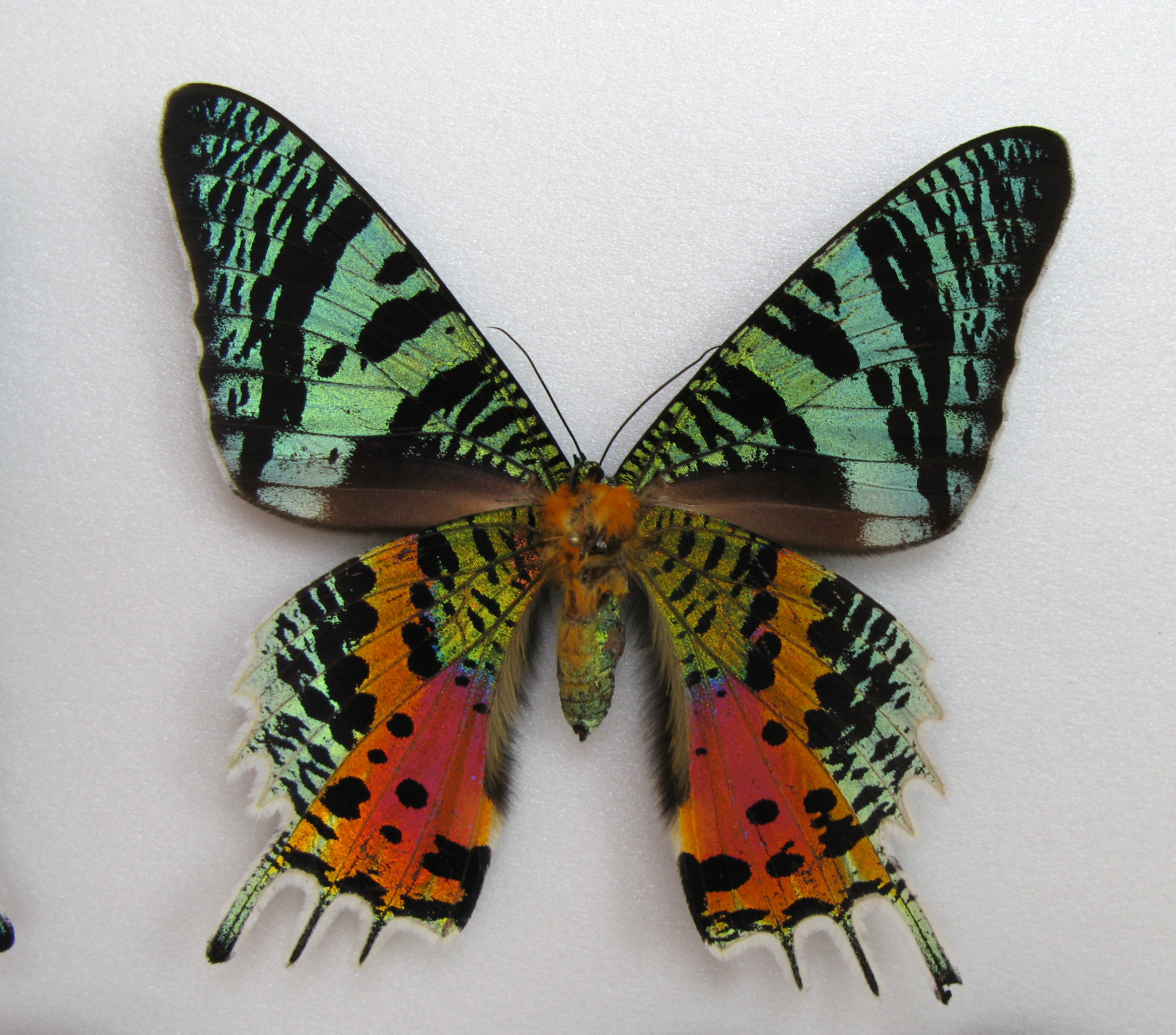 Chrysiridia rhipheus verso